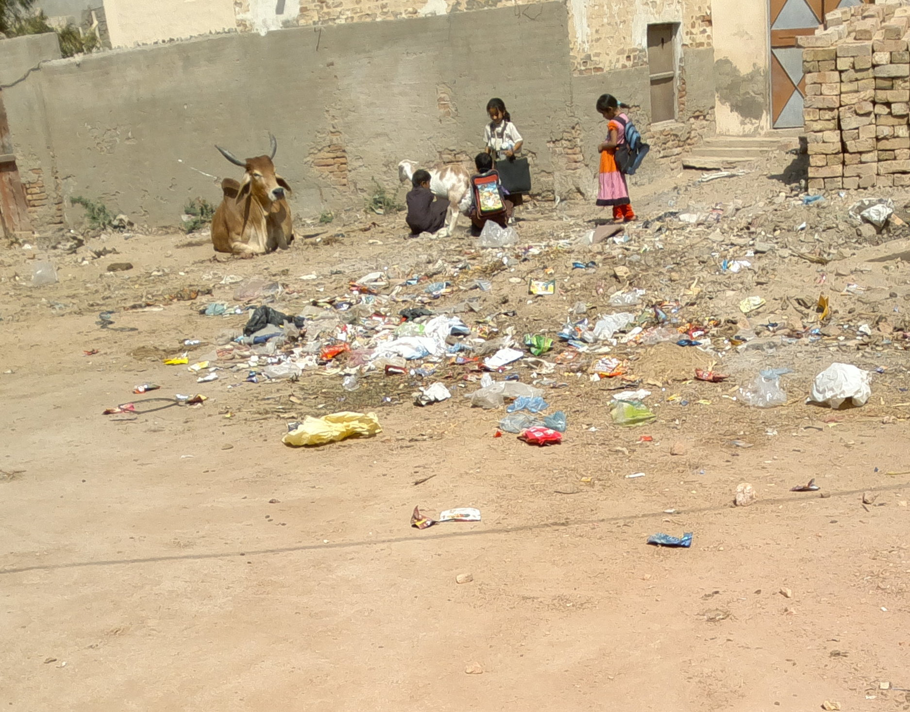 School children returning home after school hours meet their unprivileged friend in a ground near school. The unprivileged child is son of a milkman. In the picture the unprivileged child is teaching other school children how to milk a goat. In this picture taken in Tharparkar an unprivileged child is demonstrating how to milk a goat which he inherited from his family work or business. He asks his friend (the school boy) to sit next to him so that goat milk squirt directly gets into his mouth. The girl standing in front is giggling to see them and another girl standing bit away is puzzled to see them.